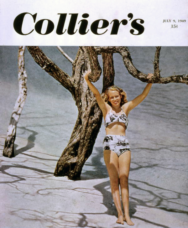 Copy showing the photographer's daughter Lois Duncan Steinmetz on the 1949 cover of Collier's magazine. Image Number: JJS1747 Year: 1965 (photographed in May 1965) General: Steinmetz collection Specific: Steinmetz collection N2011- 7, Photographic collection, 1930s-1970s; Box 12 General Note: Note magazine published on July 9, 1949. Shelf Number Location: 30713, C.